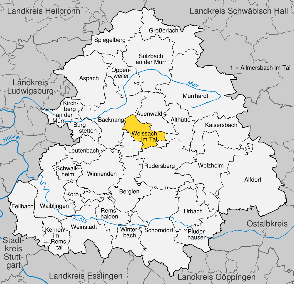 position of Weissach im Tal within the Rems-Murr-Kreis, Baden-Württemberg, Germany